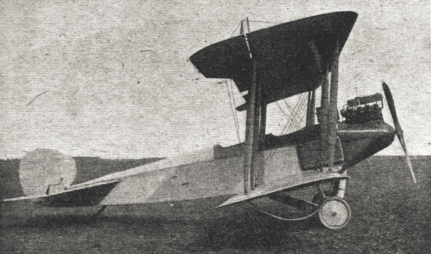 Right side photo of an Aeromarine M-1 aircraft